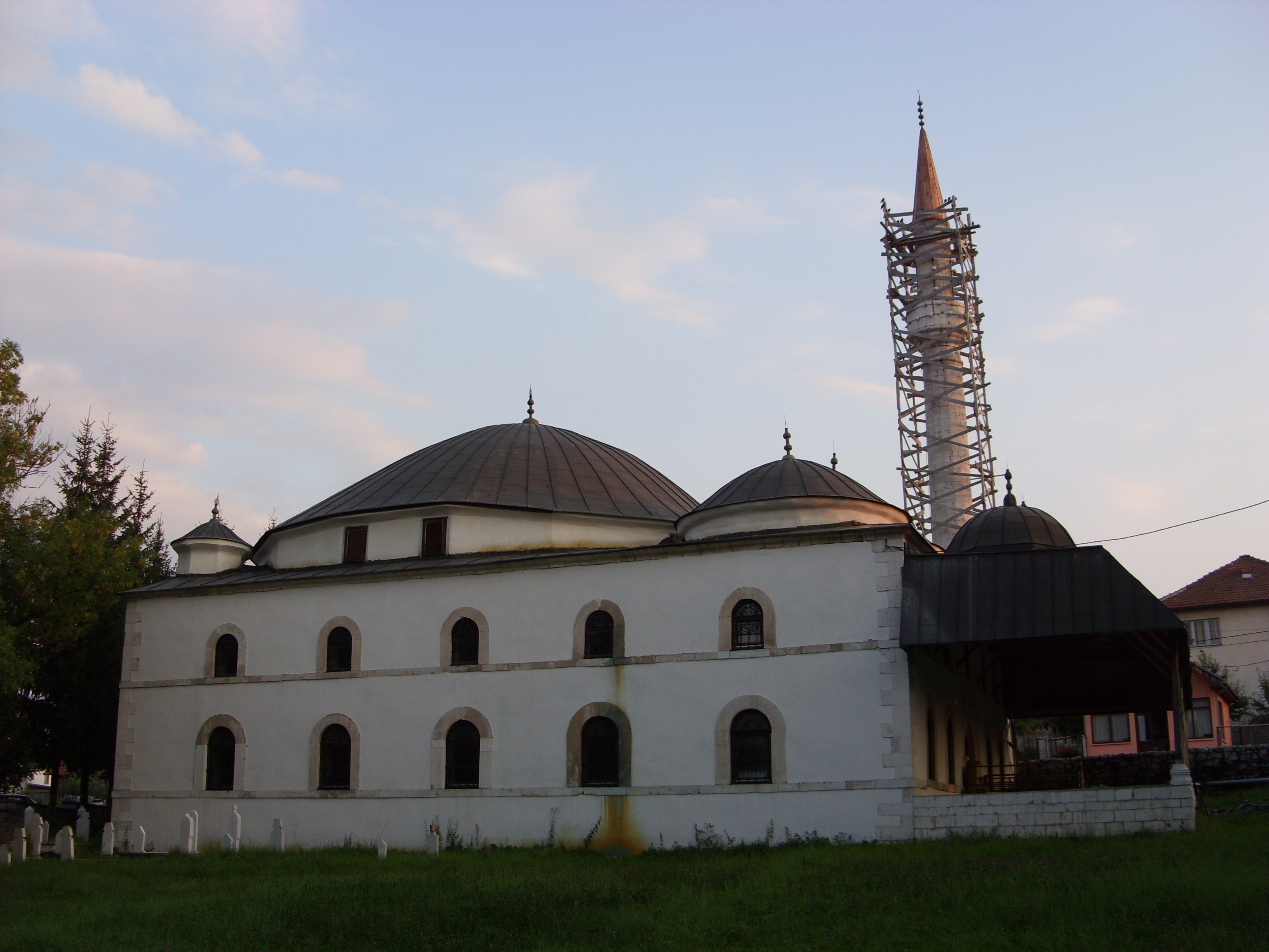 Mosque in Sjenica, Sandjak of Novi Pazar, Serbia. Hornjoserbsce: Mošeja w Sjenicy, Nowopazarski Sandźak, Serbiska.